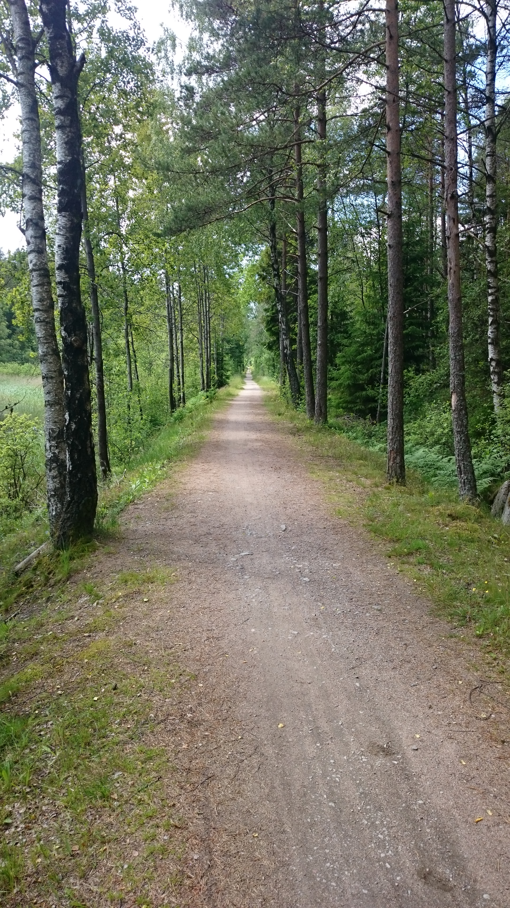 The trail that was previously a railroad track between Uddevalla and Lelången.